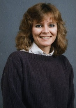 Peggy Noonan , White House speechwriter